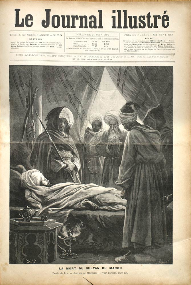 The death of Hassan 1st,sultan of Morocco